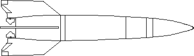 USA Code Name:SS-1a Nato Code Name: Scunner Russian Designation: 8A11 Range: 320 Km Fuel: Liquid - Alcohol + LOX Engine RD-100 Inservice: 1950 Notes: First Russian system incorporates V2 parts